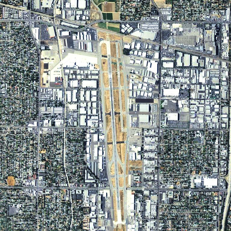 USGS digital orthophoto of Van Nuys Airport in California